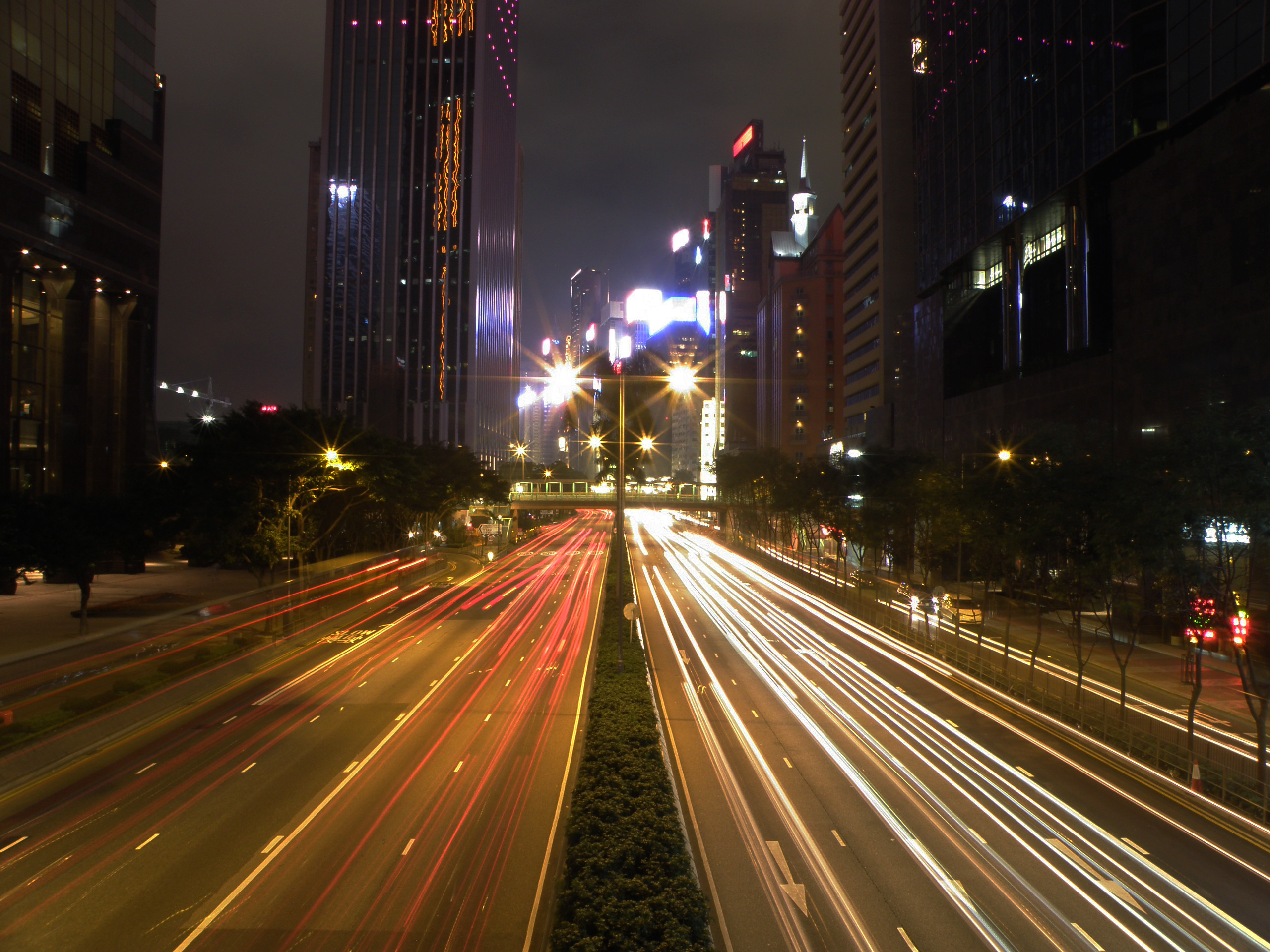 Gloucester Road in Wan Chai, Hong Kong.